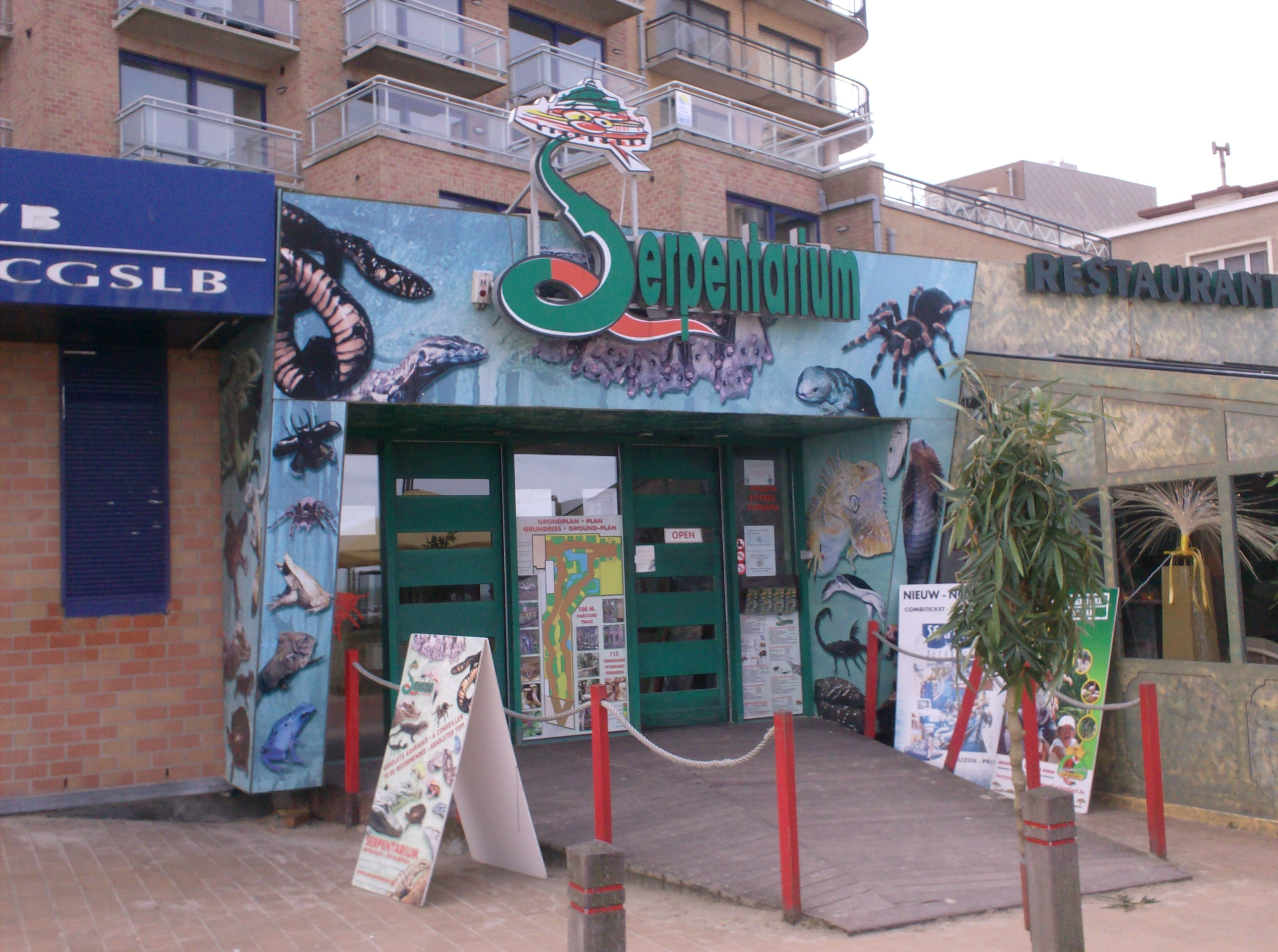 Serpentarium on the seafront at Blankenberge (Flanders, Belgium)